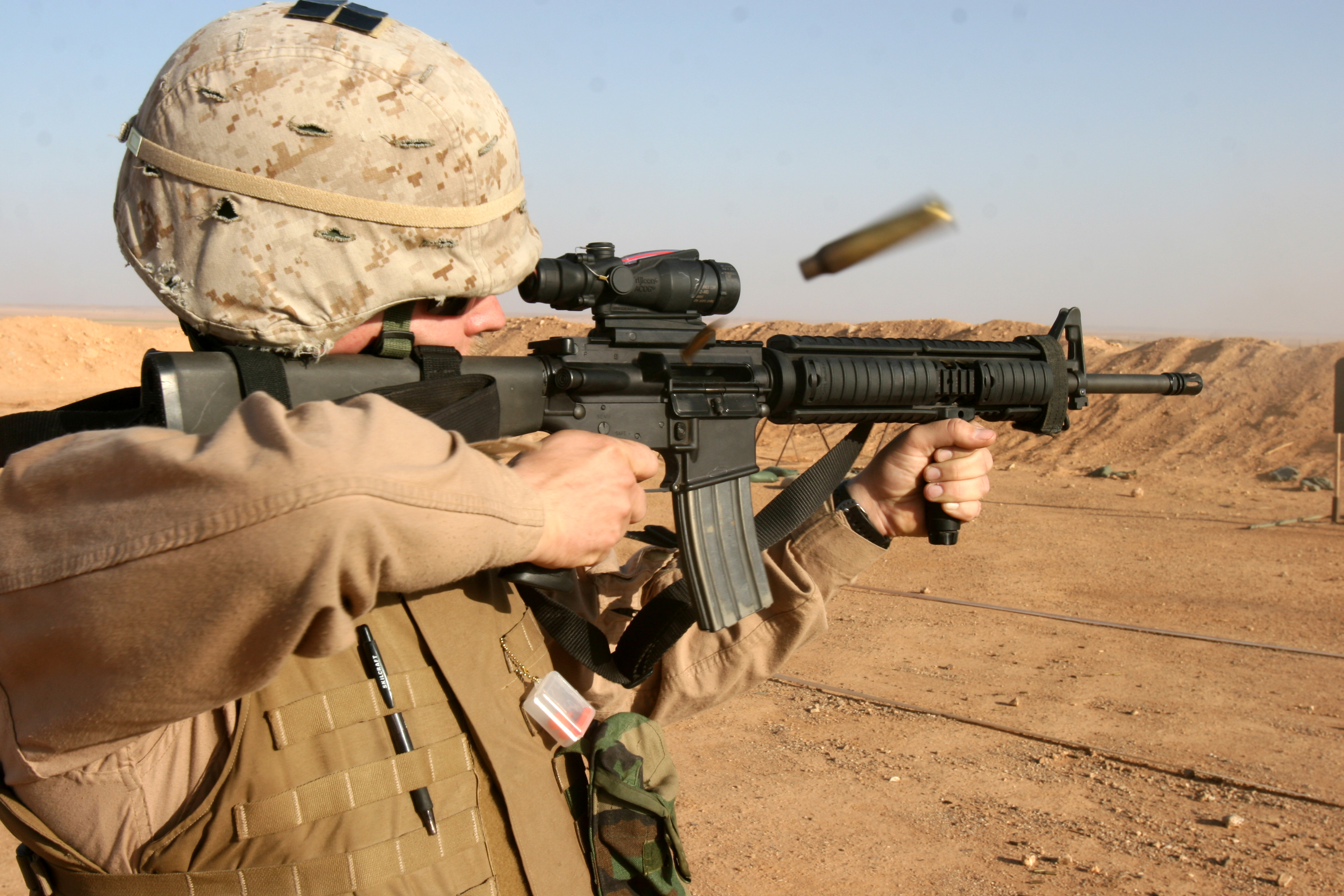 CAMP KOREAN VILLAGE, Iraq (May 15, 2007) – Sergeant Christopher L. McCabe fires his rifle during monthly range training here May 15. The Marines and sailors of Detachment 1, Combat Logistics Battalion 2, 2nd Marine Logistics Group (Forward), provide necessities and services to coalition forces throughout the area of operations. McCabe, a Bellaire, Ohio, native, is the staff noncommissioned officer-in-charge of the maintenance section, Det 1, CLB-2, 2nd MLG (Fwd). Photo ID: 20075259617 Submitting Unit: 2nd Marine Logistics Group